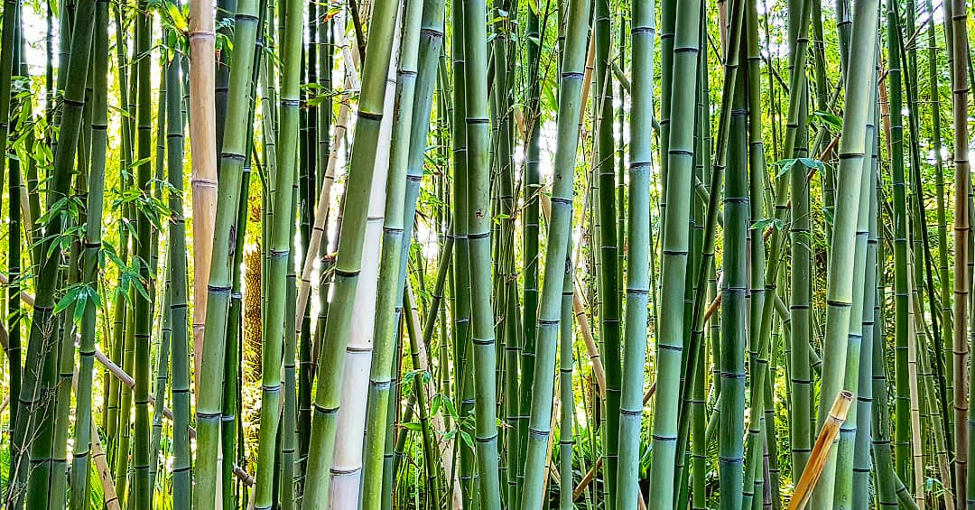 Phyllostachys viridiglaucescens, giant bamboo, originally from China, at the Botanical Garden of Blanes, Marimurtra